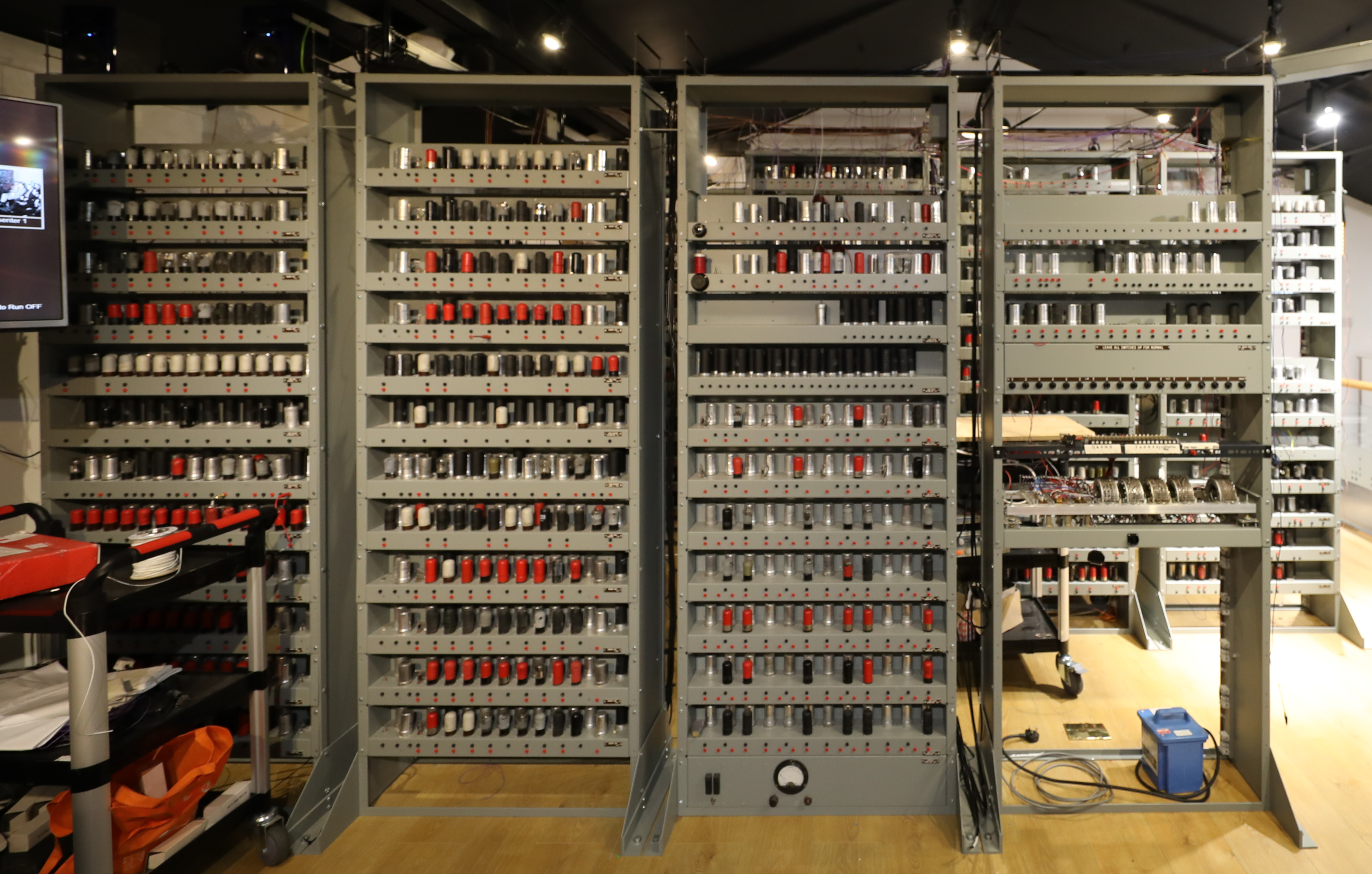 Photo of the EDSAC Replica under construction by the Computer Conservation Society